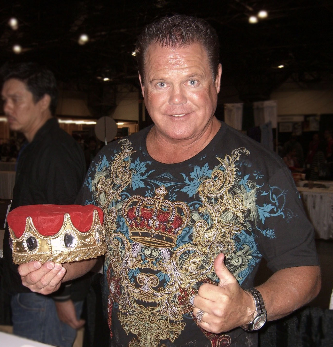 Professional wrestler Jerry Lawler at the New York Comic Convention in Manhattan, October 9, 2010. Photo by Luigi Novi. This photo may be used, modified and published for any purpose, only if the photographer is visibly credited in each instance in which it is used. (See licensing information below.) Publication of this photo without proper attribution constitute copyright infringement. For more information on my photos, you can contact me here.